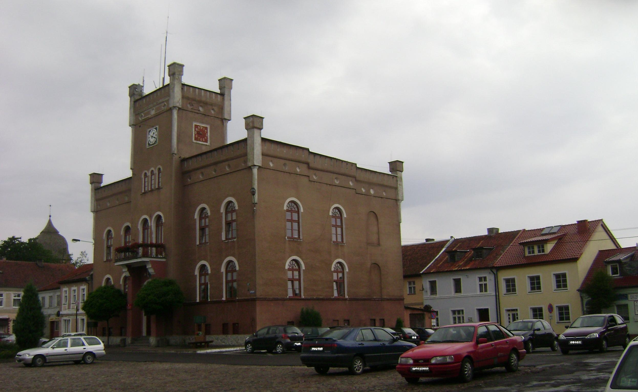 Pasym, the townhall